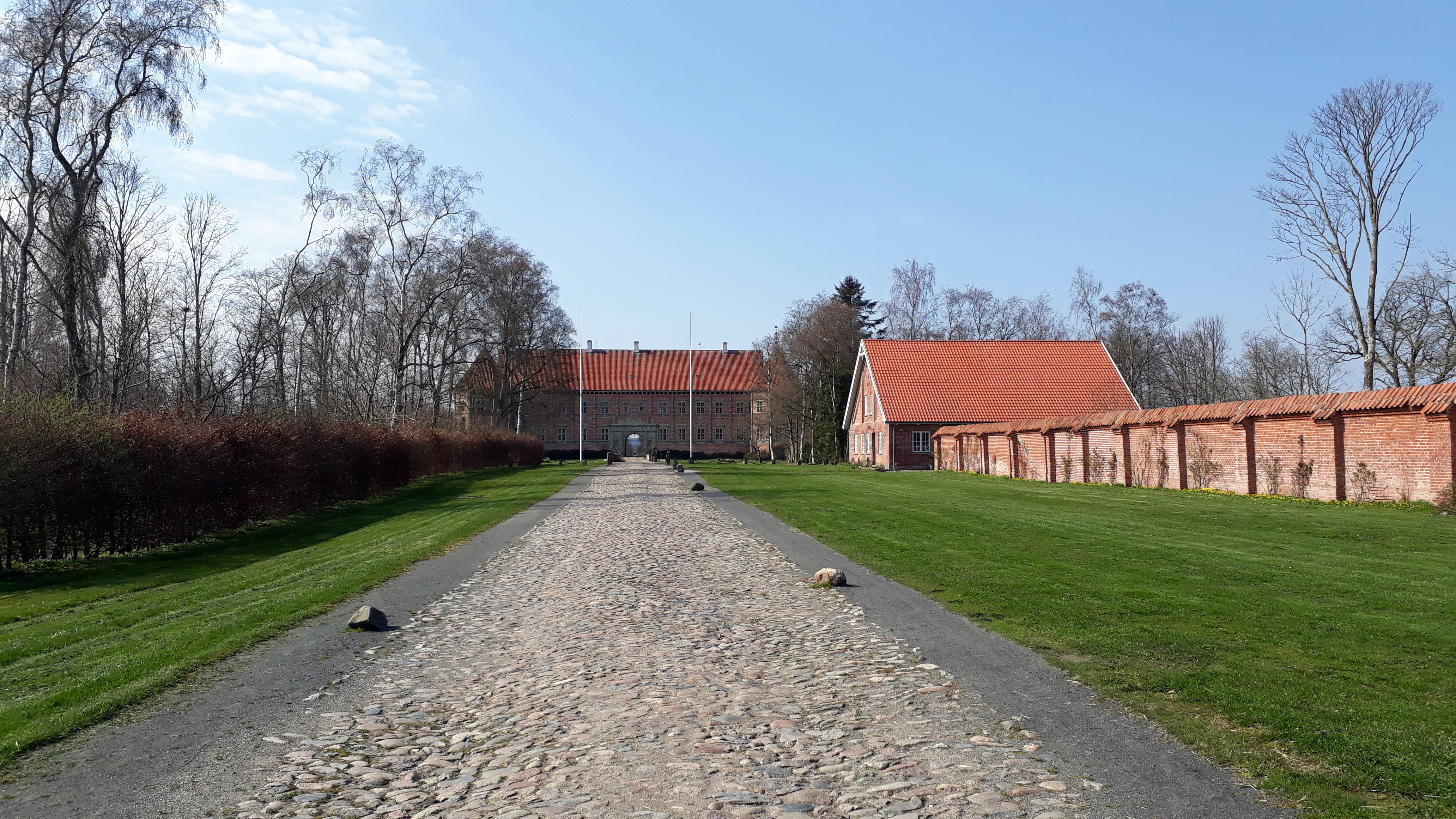 Voergaard Castle – a moated Renaissance manor house in north-western Denmark